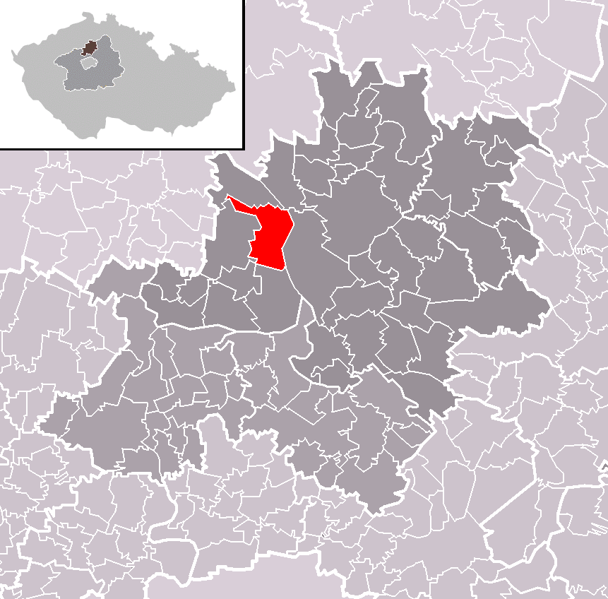 Location of Dolní Beřkovice municipality within Mělník District and administrative area of Mělník as a Municipality with Extended Competence.